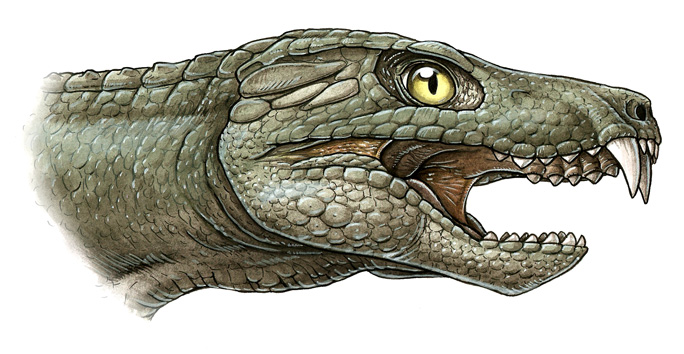 A painting depicting a close-up to the head of the Notosuchian Crocodile Mariliasuchus amarali